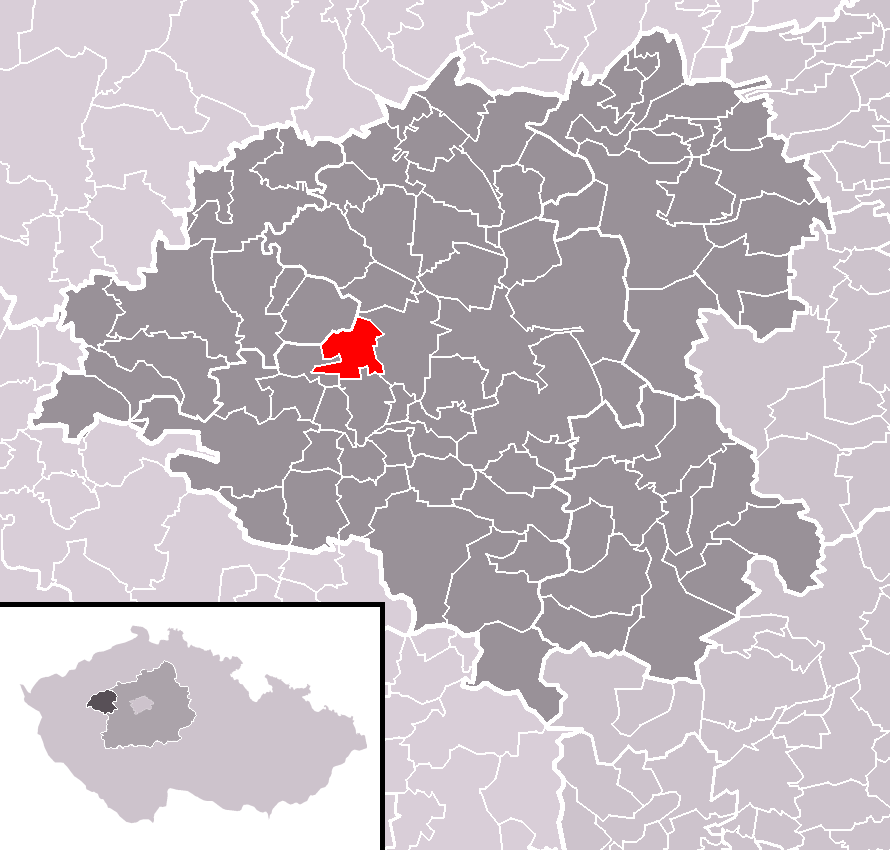 Location of Šanov municipality within Rakovník District and (identical) administrative area of Rakovník as a Municipality with Extended Competence.